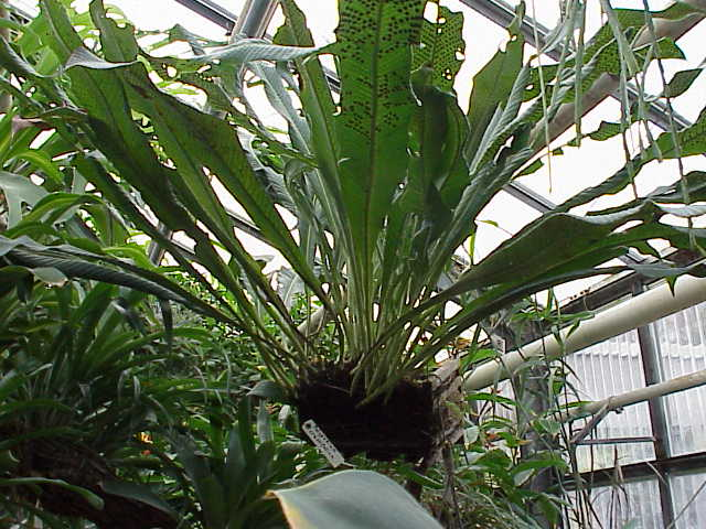 Species: Niphidium crassifolium Family: Polypodiaceae Image No. 2